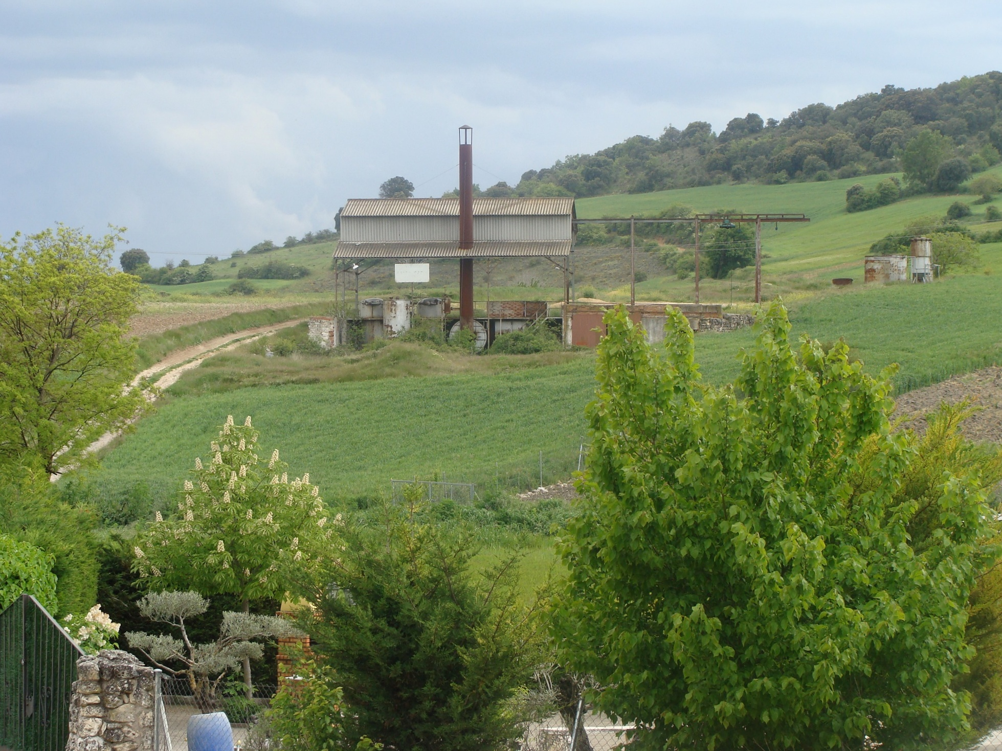 Abandoned Processing Plant for Lavender in Escamilla (Guadalajara, Spain)